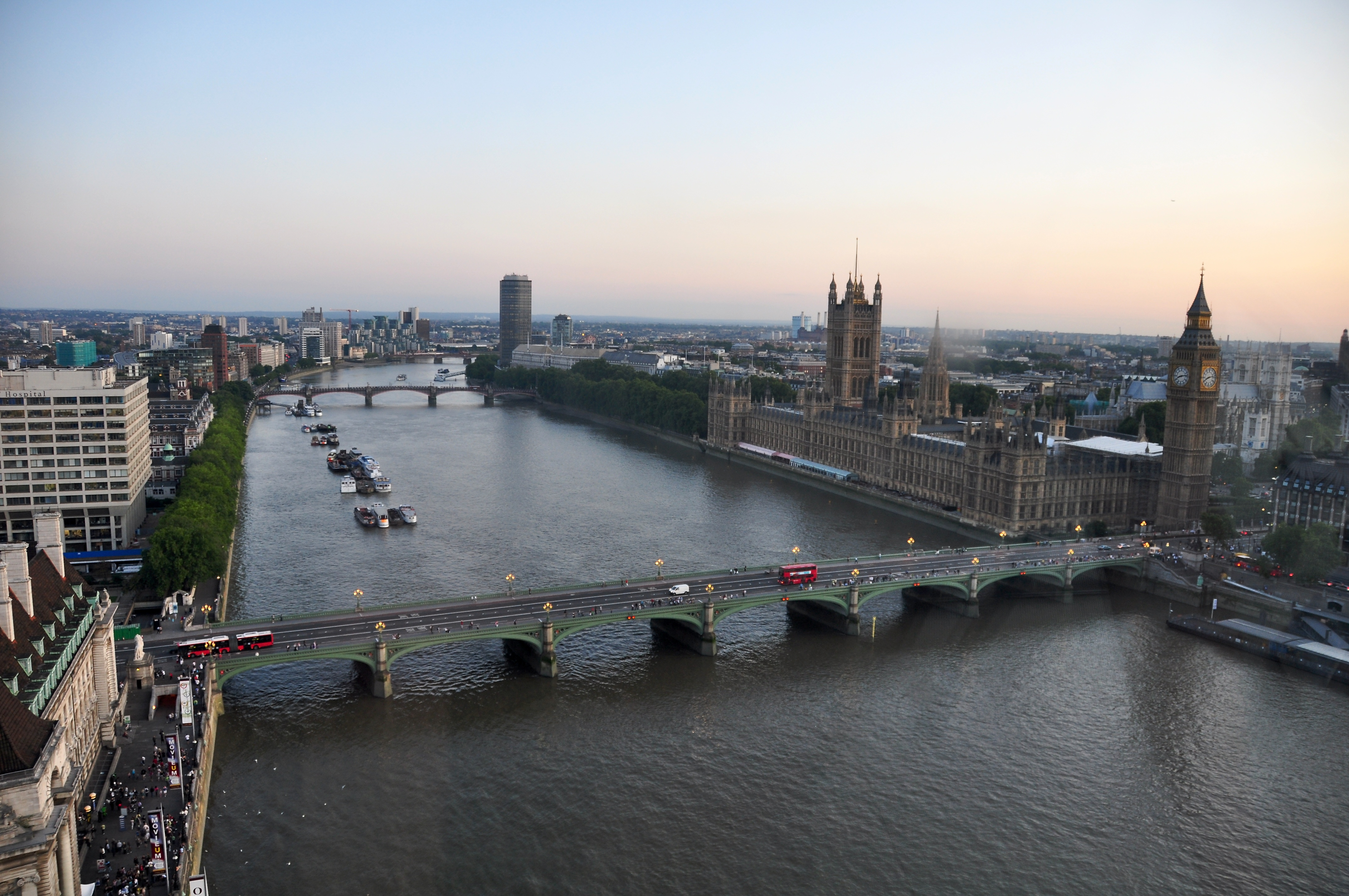 River Thames, Big Ben, and the Palace of Westminster. The bridge nearest the camera is Westminster Bridge, the next bridge is Lambeth Bridge, and bridge just visible in the distance is Vauxhall Bridge (as seen from the London Eye observation wheel.)